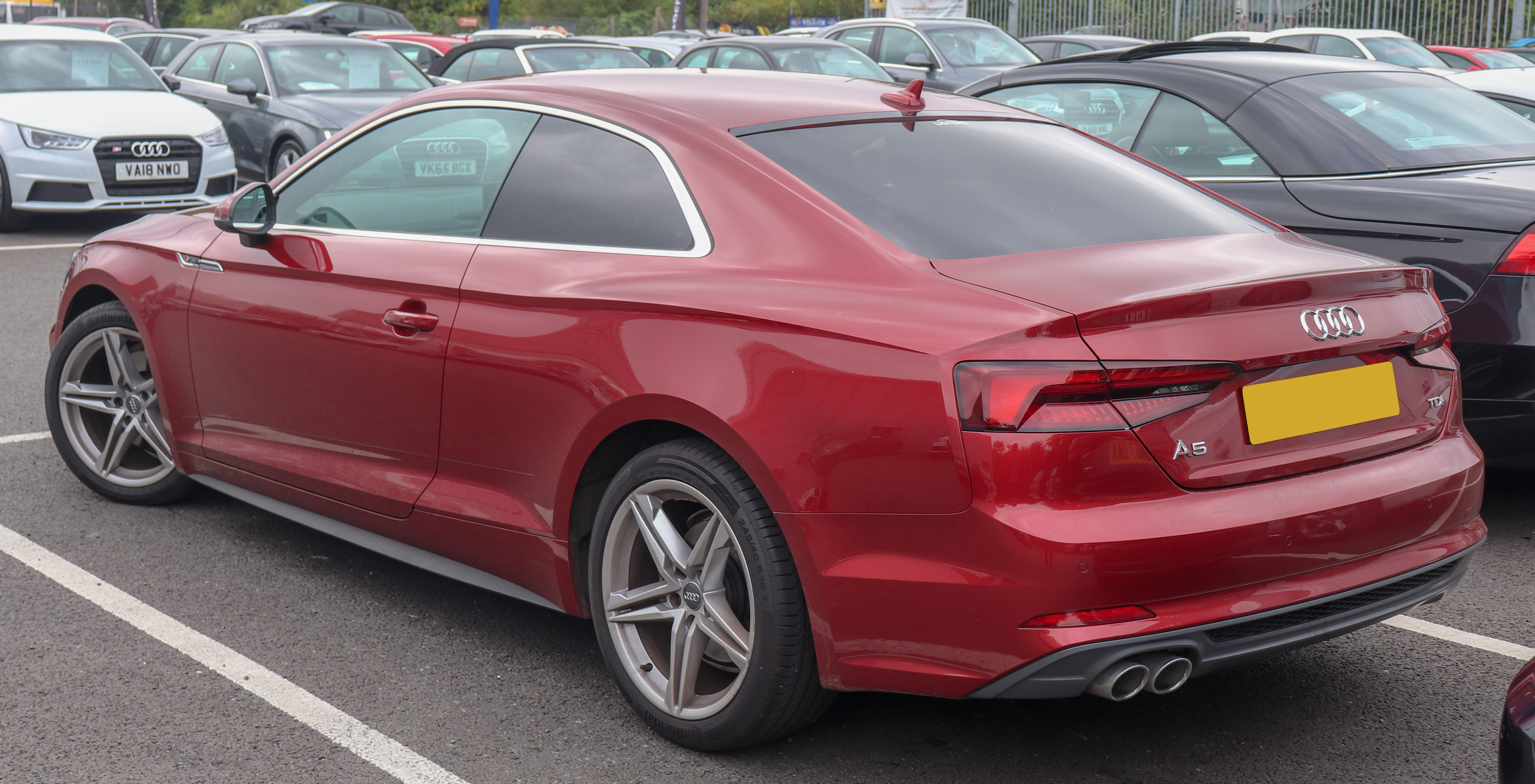 2018 Audi A5 S Line TDi S-A 2.0 Rear Taken in Stratford-upon-Avon